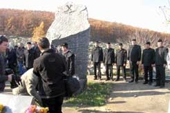 ceremony for disaster in Aleksinac